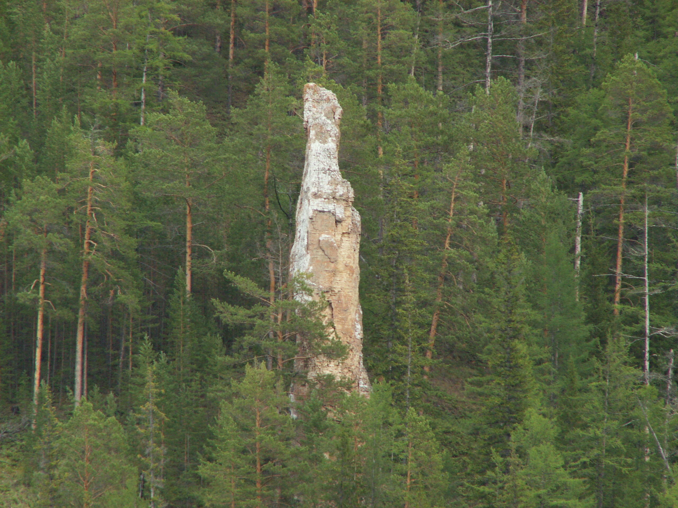 Lena Pillars and Pinus sylvestris forest